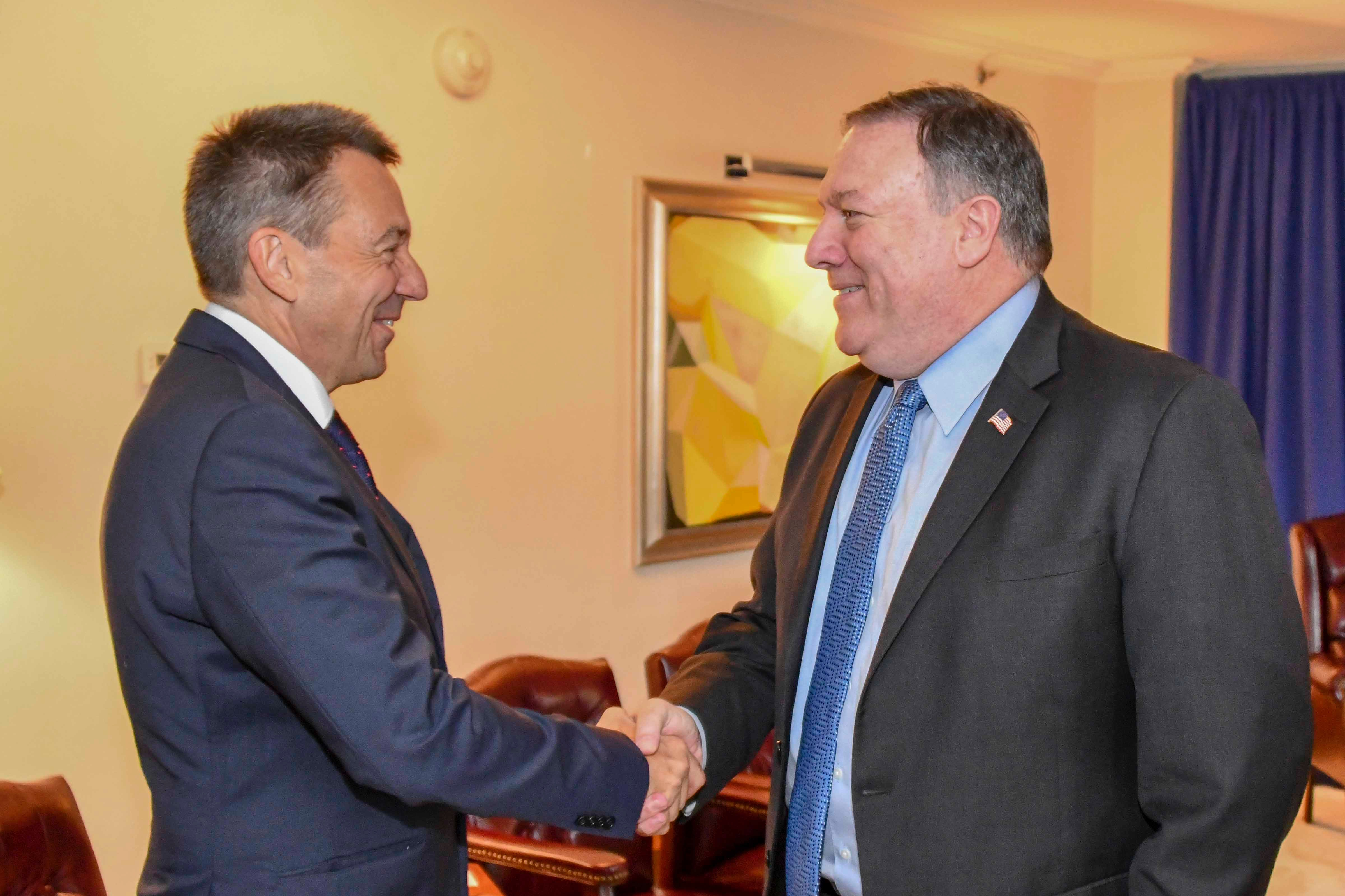 Secretary of State Michael R. Pompeo meets with President of the Red Cross Peter Maurer, on the margins of the 73rd Session of the United Nations General Assembly, in New York City on September 28, 2018. [State Department photo/ Public Domain]